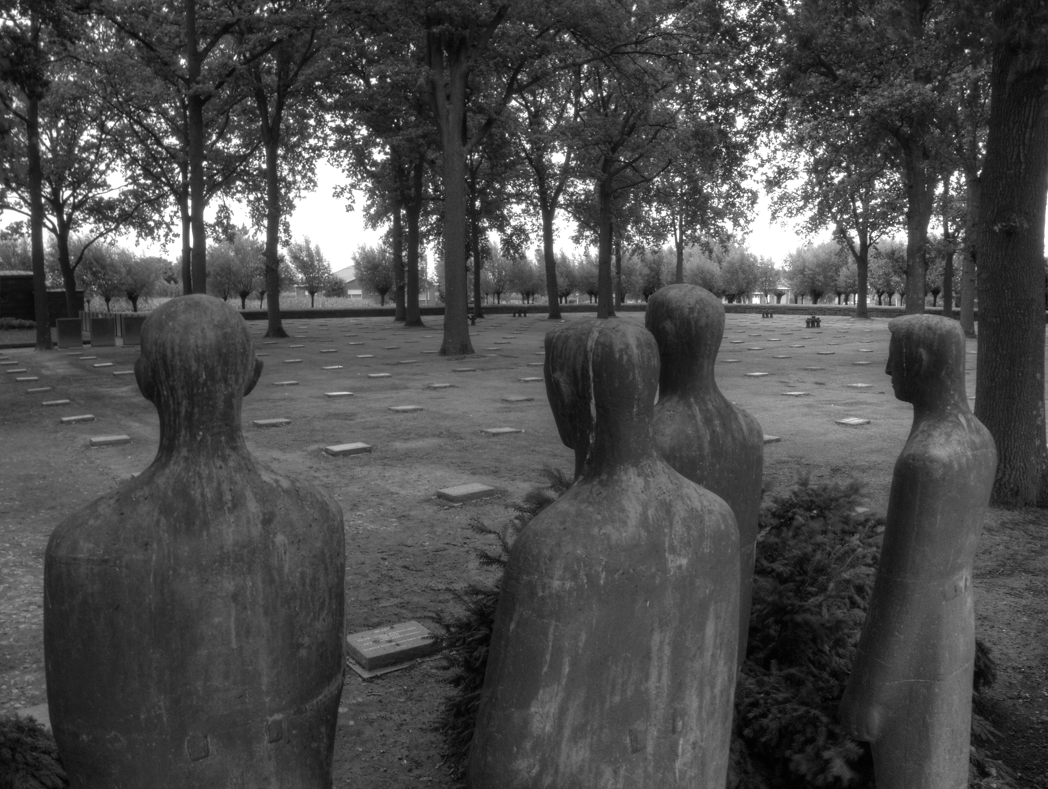 Grieving soldiers by Emil Krieger, Deutscher Soldatenfriedhof in Langemark